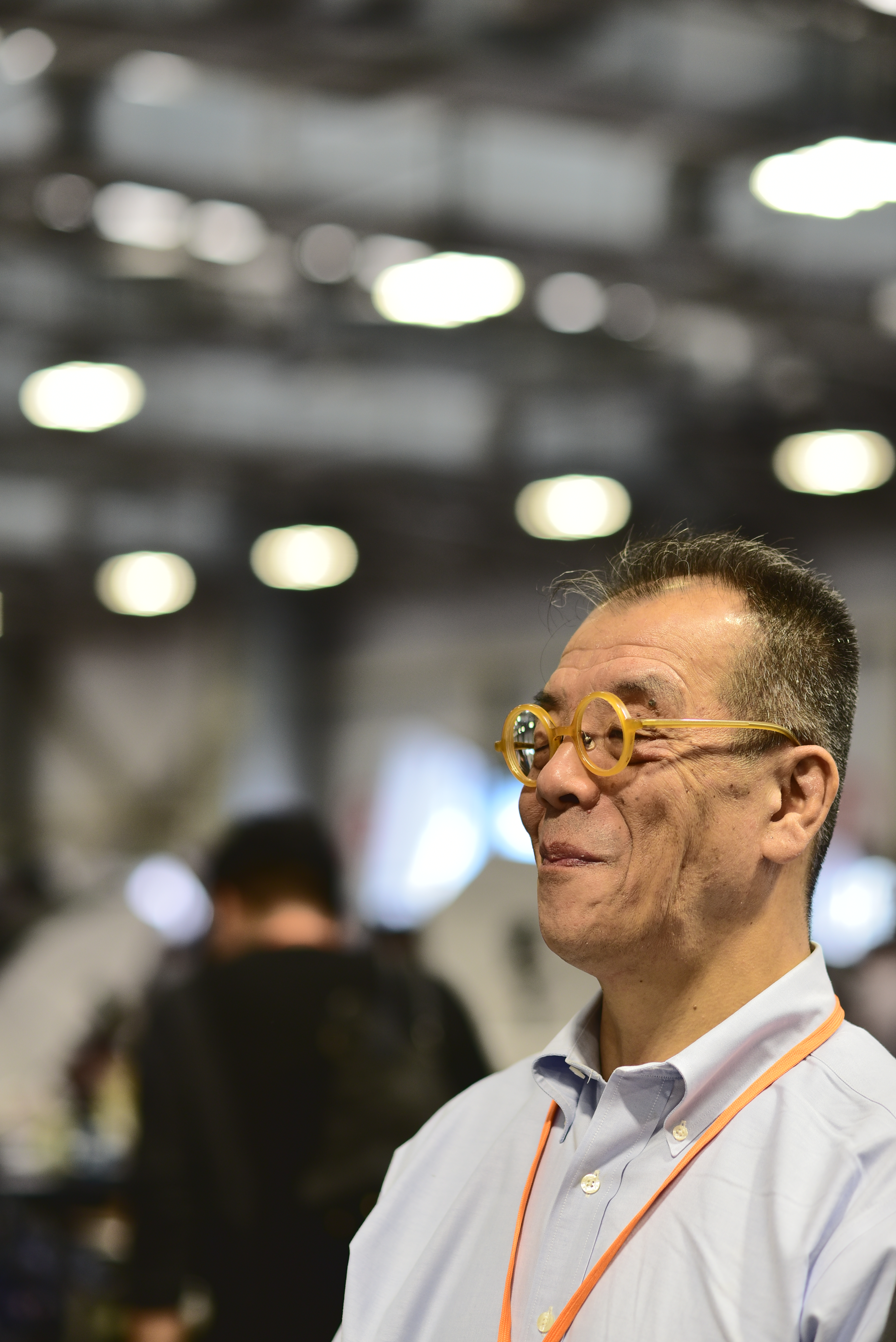 中文（台灣）: 山田卓司出席第27屆亞洲動漫創作展（Petit Fancy 27）與第5屆開拓模型祭（Reality Fantasy 5）。